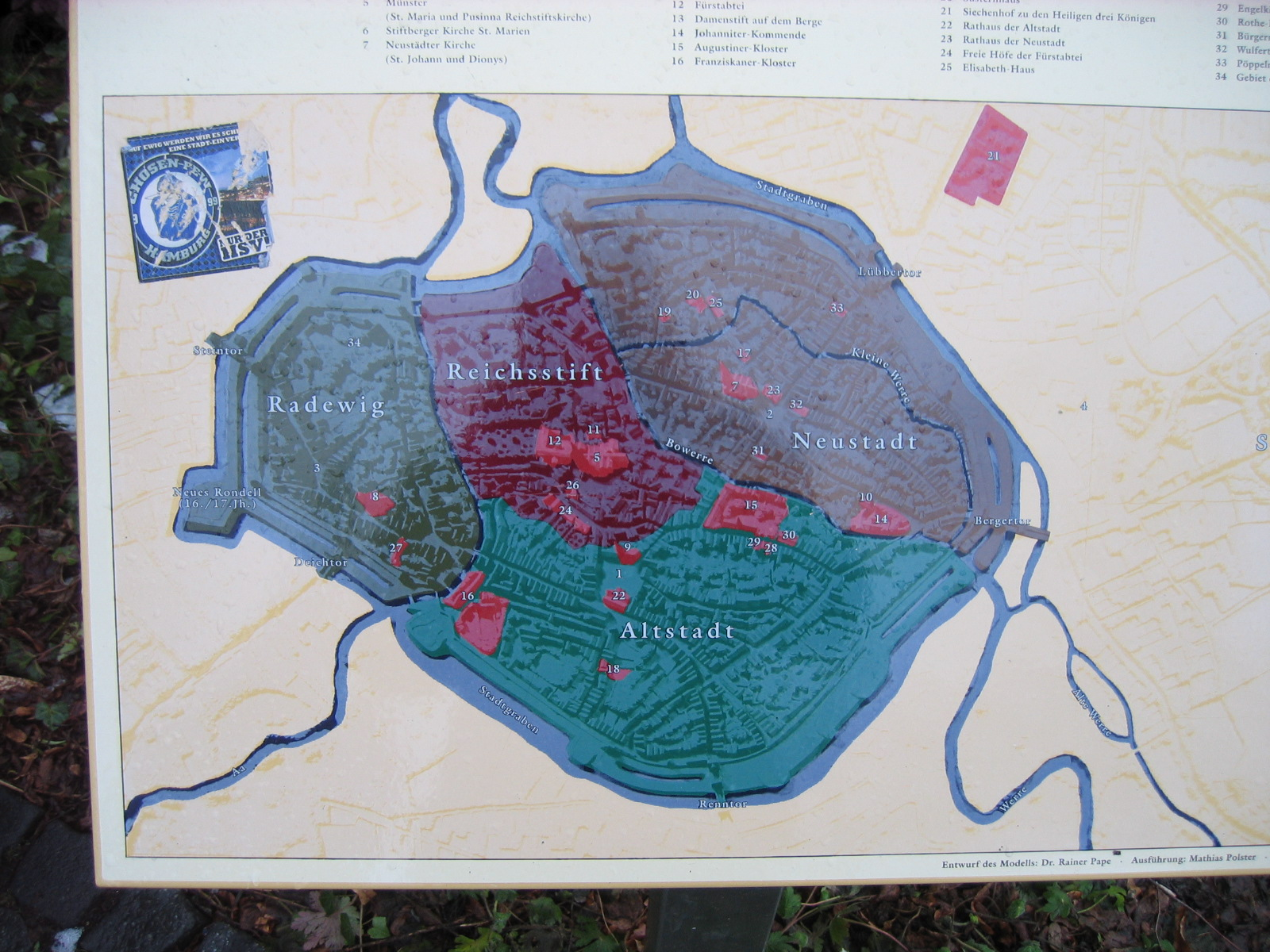 in Herford, District of Herford, North Rhine-Westphalia, Germany.